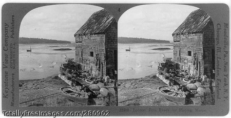 Stereoscopic view "Lobster pots ready for placing" ~ 1928